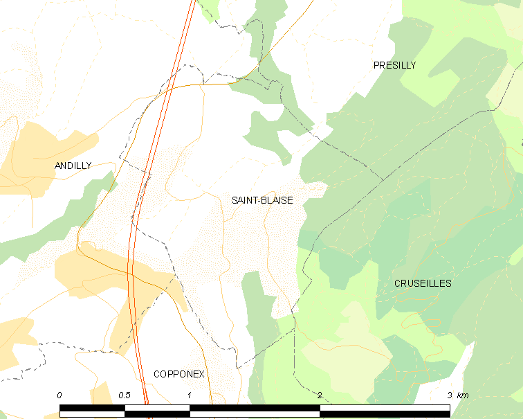 Map of French municipality Saint-Blaise